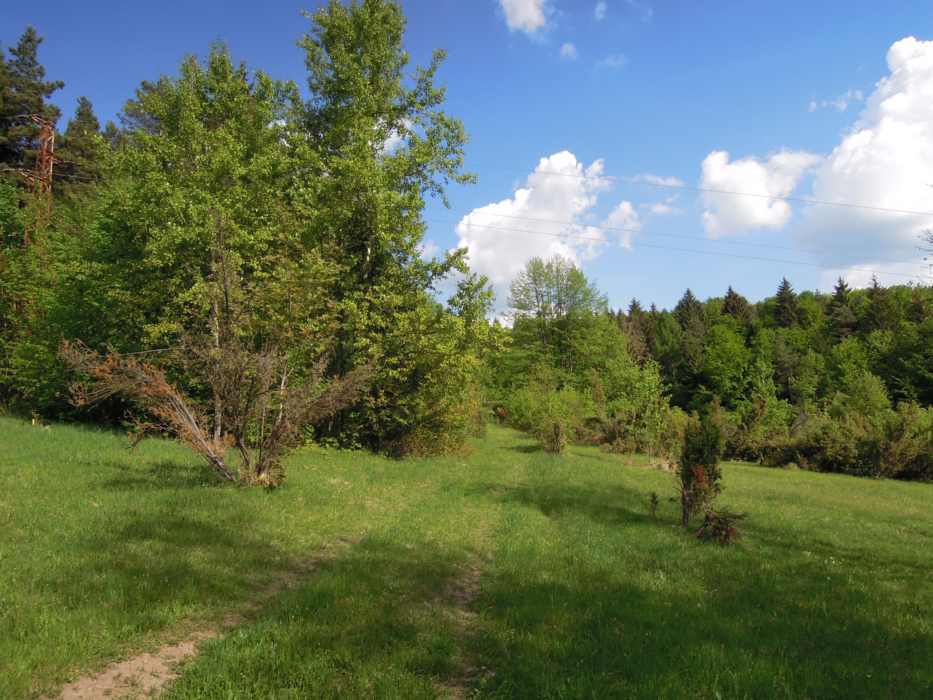 Růžděcký Vesník natural monument in Růžďka, Vsetín District, Zlín Region, Czech Republic